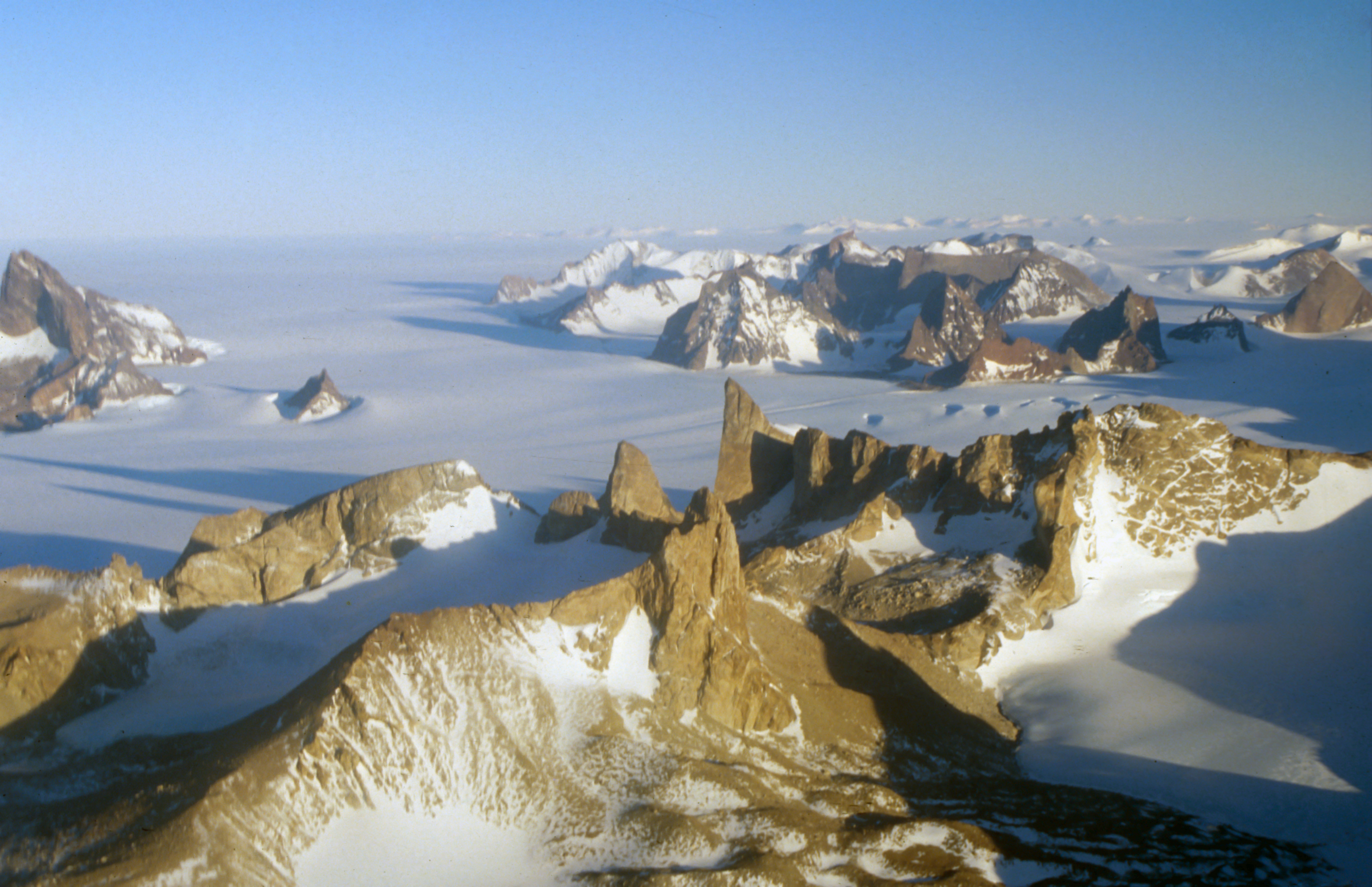 Aerial photograph from the southern Petermann Chains, Dronning Maud Land, view to the SE